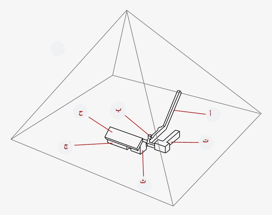 Substructure of the Userkaf pyramid